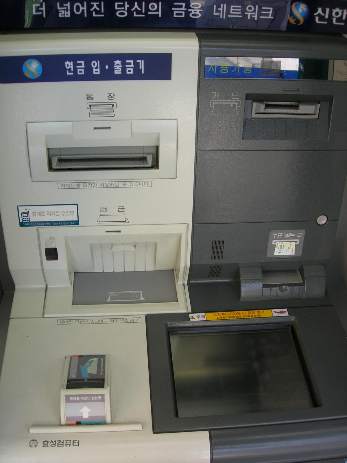 old Nautilus Hyousung ATM with mobile bank port (mid-left) and bar code reader(bottom-left).